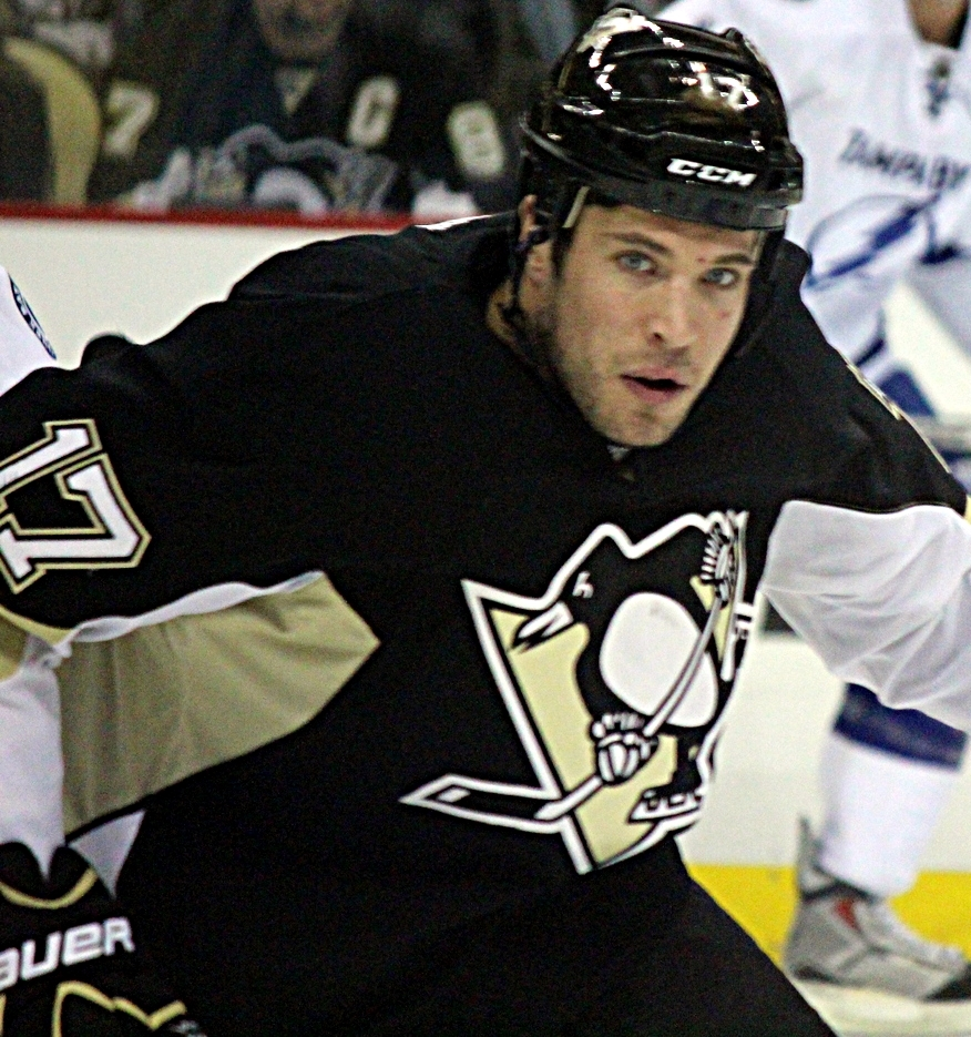 Pittsburgh Penguins forward Taylor Pyatt skates against the Tampa Bay Lightning, March 22, 2014, at Consol Energy Center in Pittsburgh, PA.